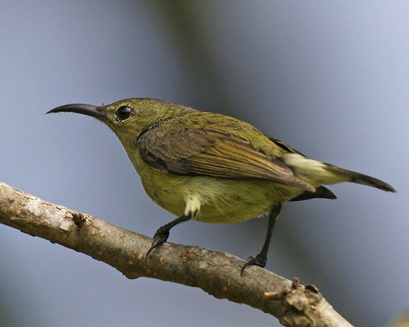 Mating display of sunbird Display: Actual coital sequence: 1 Female positioned herself and started fluttering 2 With the fluttering she leaned forward 3 The male which was displaying above and infront of her hovered in and mounted 4 Very briefly there was very close contact, the assumption is that penetration had occurred 5 Before we realised it he was already dismounting 6 and hovered away - this sequence was repeated twice more in quick succession before she turned away 7 .. stopped the fluttering motion, apparently satisfied (above) Apologies if this seems rather explicit Purple-throated Sunbird - female Leptocoma sperata Central catchment area, Singapore 28th. January 2008